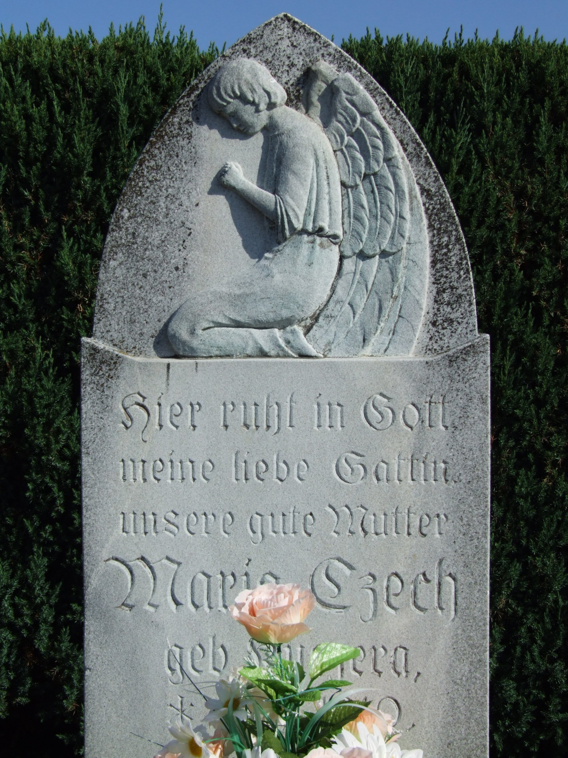 Old gravestone in Brynica (Brinnitz, Brünne) village, Upper Silesia